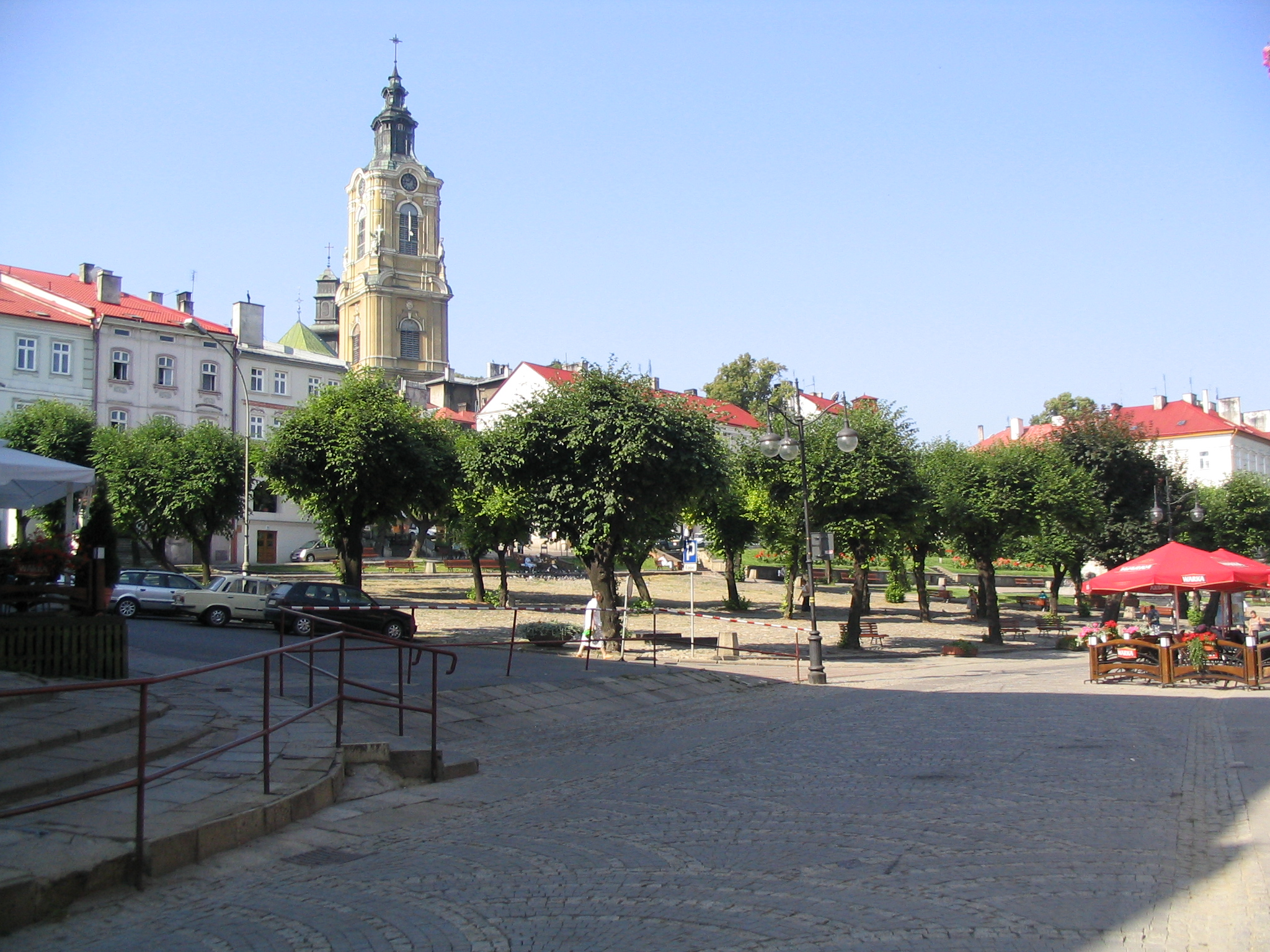 The main square in Przemyśl Author: Goku122